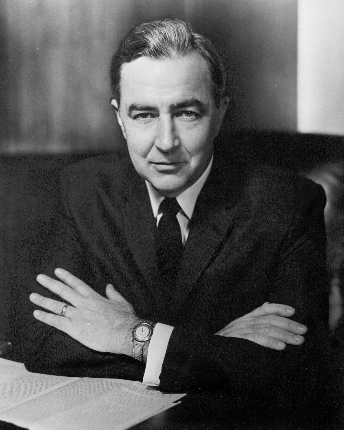 Portrait of Eugene McCarthy.